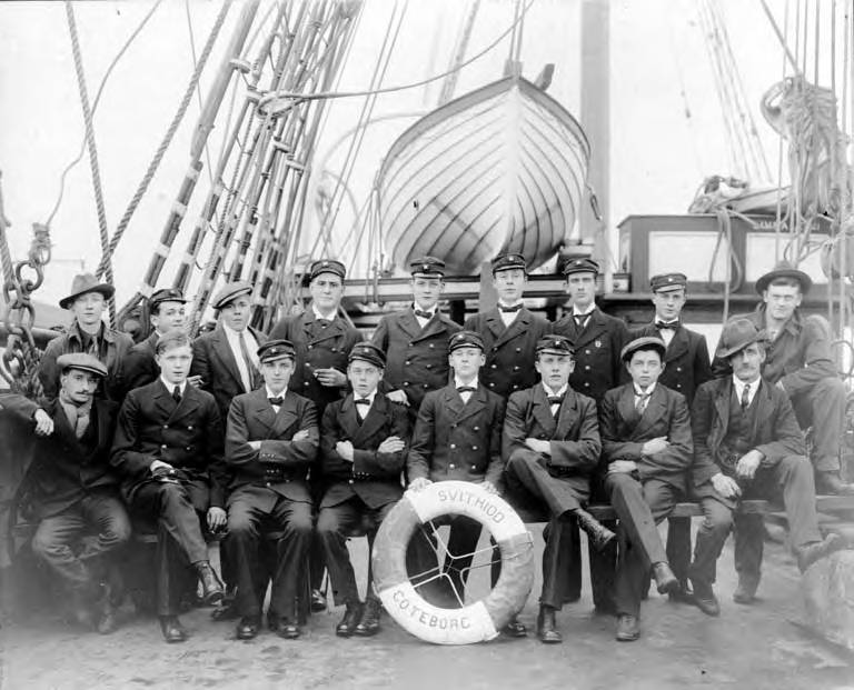 Shows crew posed on deck with life preserver that reads, "Svithiod Goteborg" . Handwritten on verso: Svithoid [Goteborg]